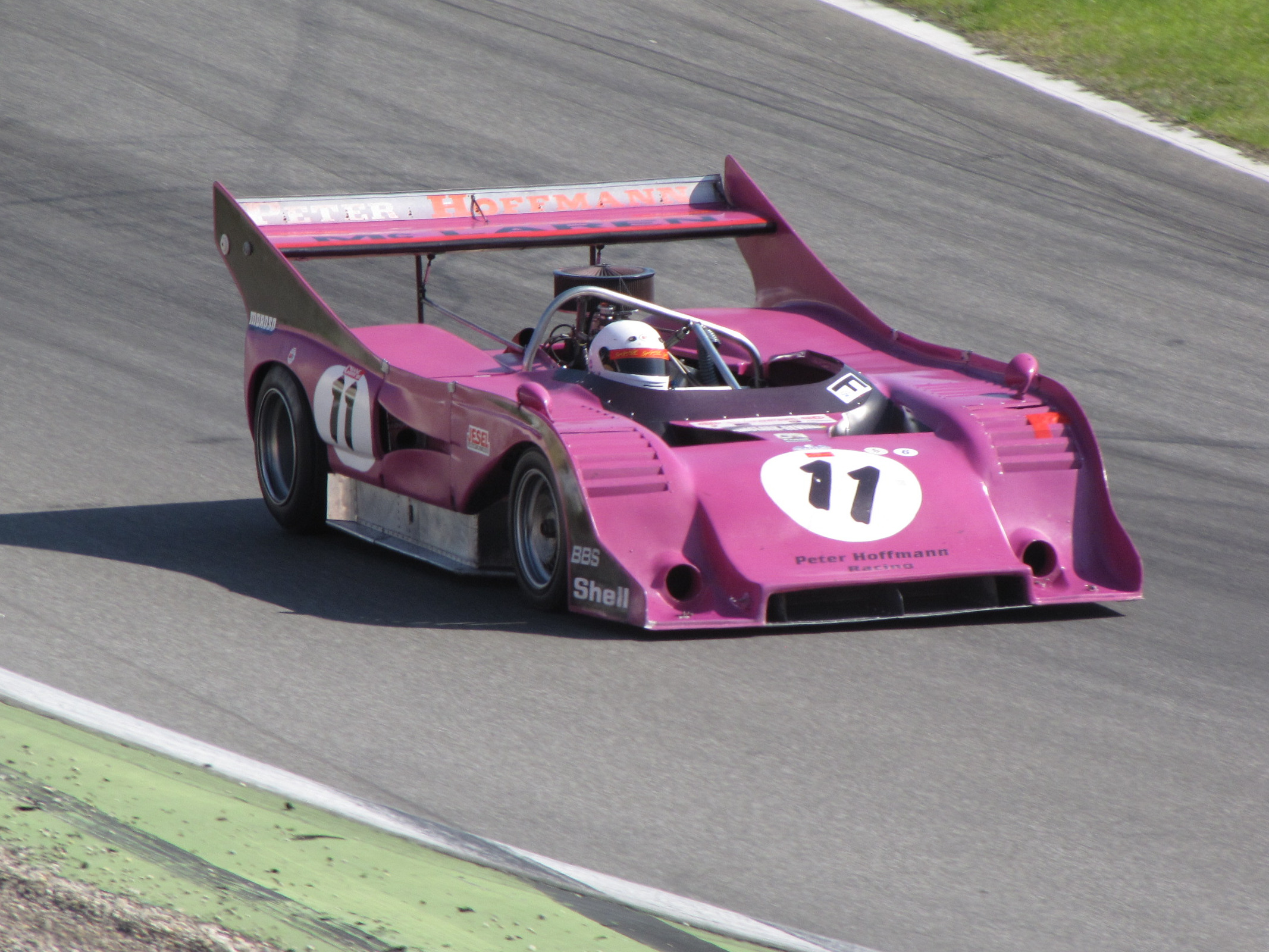 McLaren M8F of Peter Hoffmann competing at Orwell SuperSports Cup in Hockenheim 2010